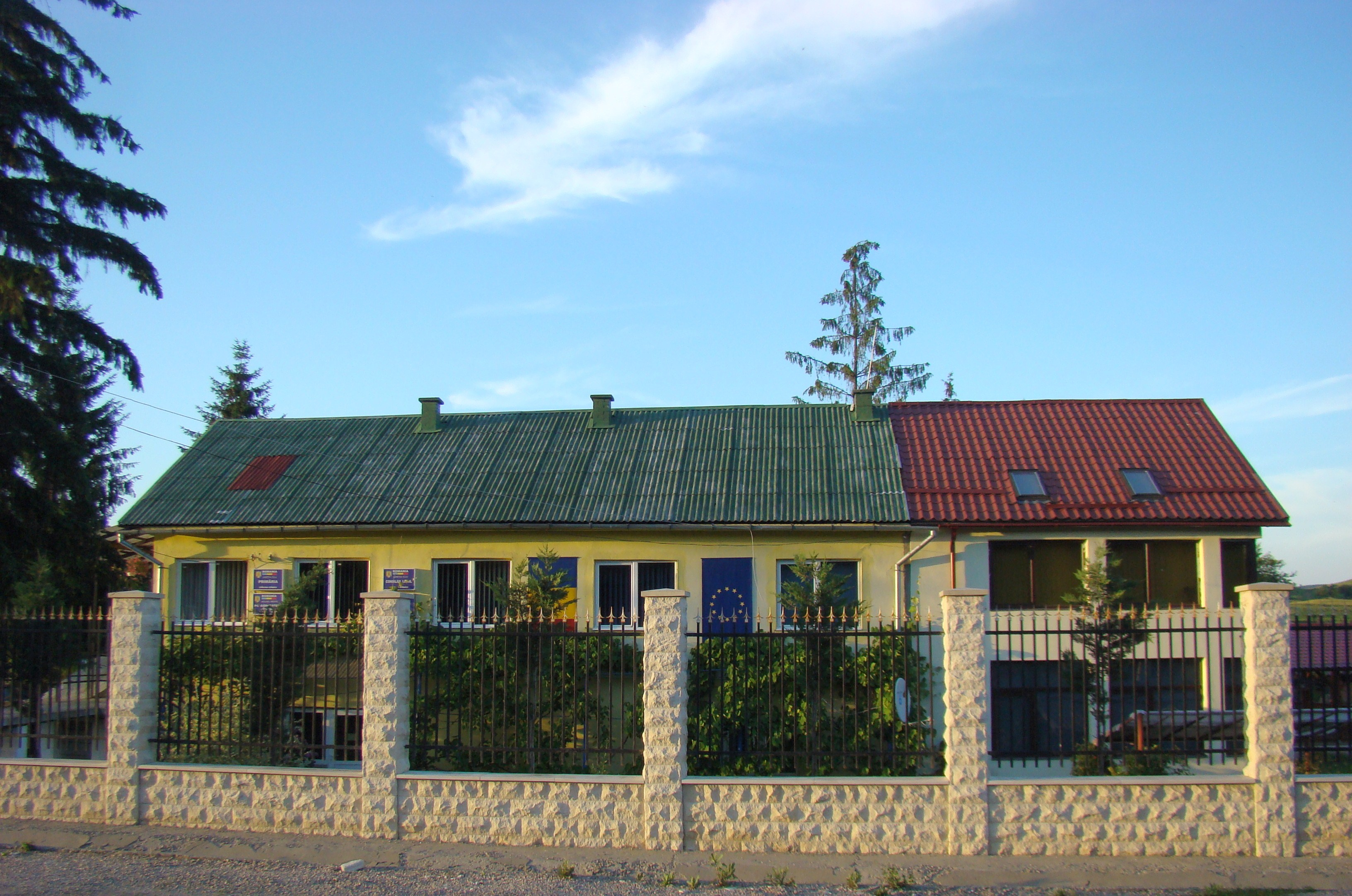 Gârbău, Cluj county, Romania